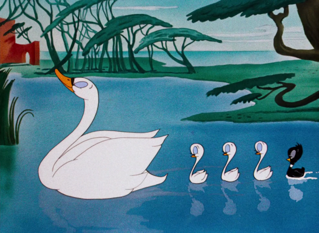 Screenshot from the public domain short A Corny Concerto (1943)